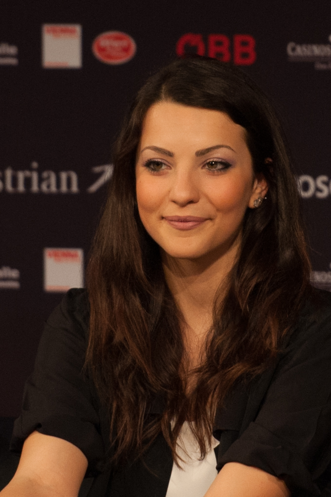 Eurovision Song Contest Vienna 2015: Anita Simonchina